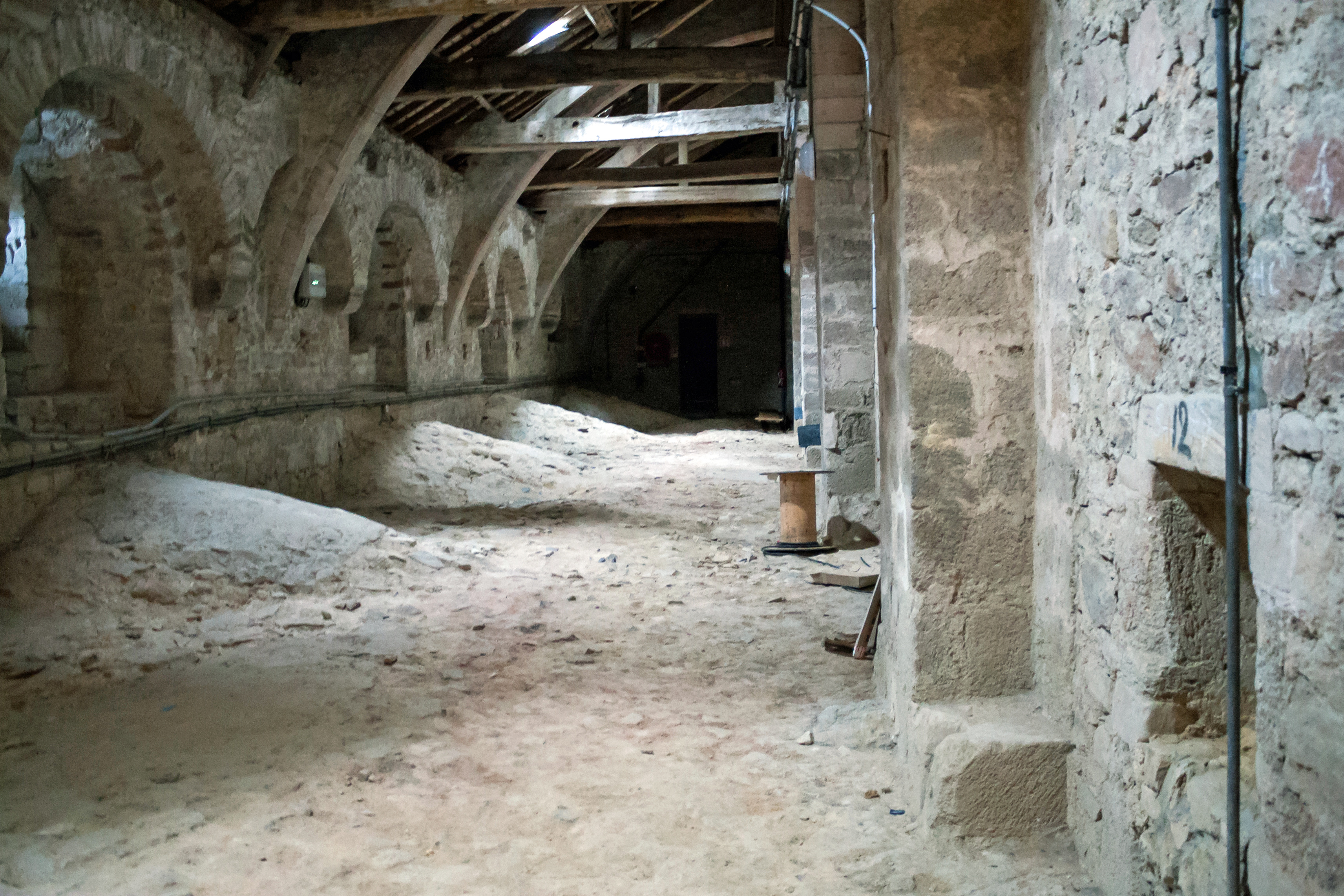 Romanesque tribunes on top of the north aisle, now hidden behind the triforium.